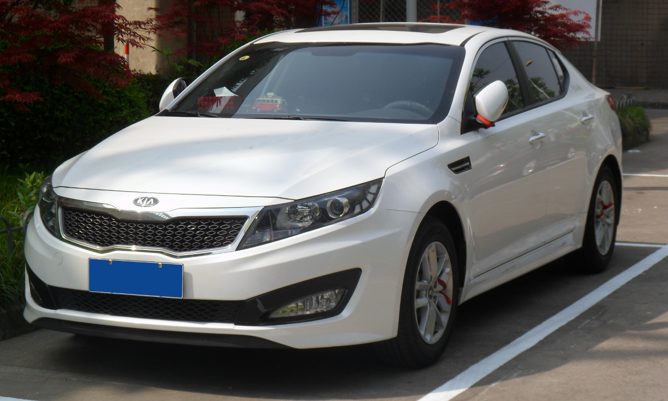 Kia K5 TF photographed in Shanghai, China.